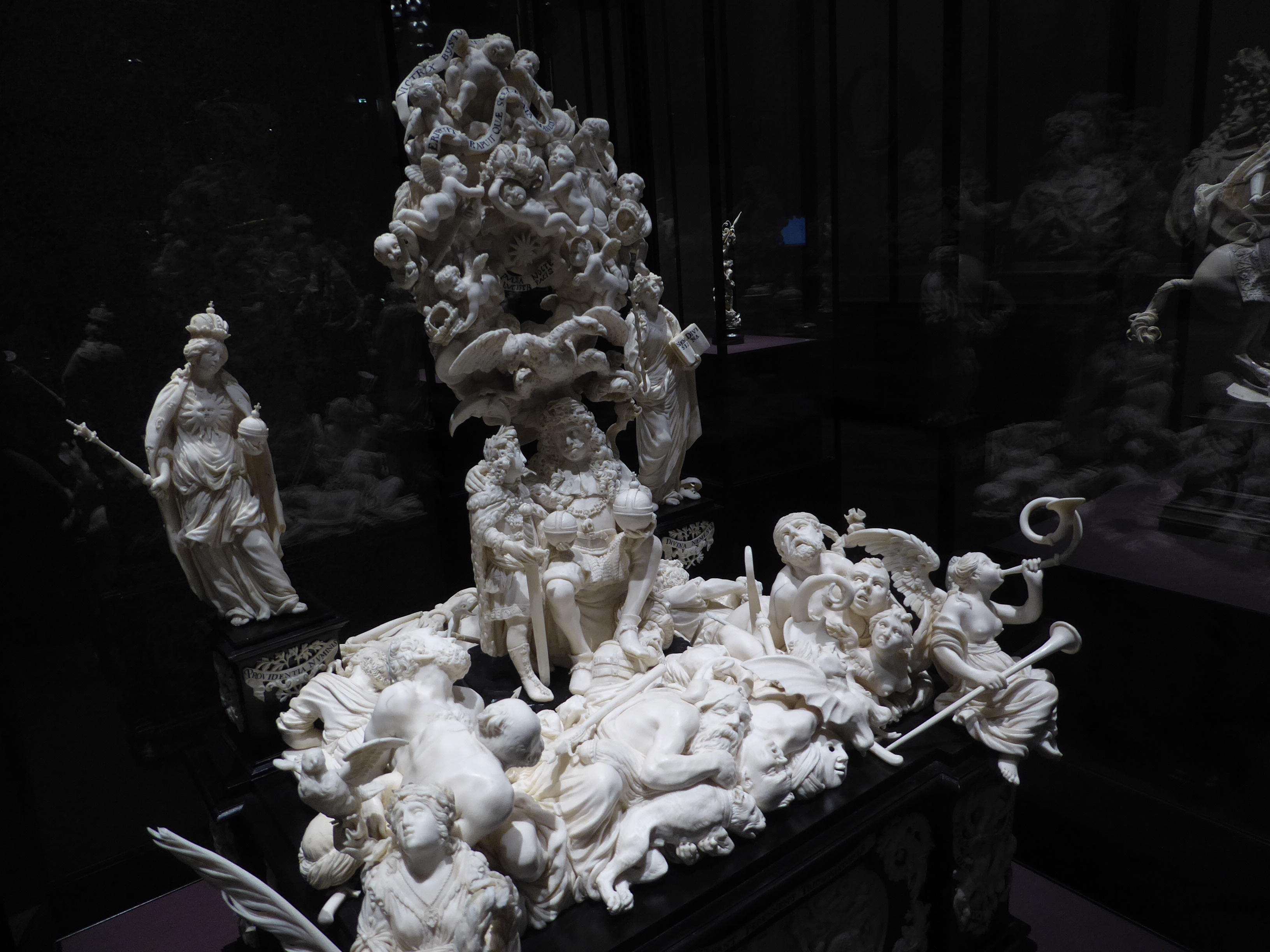 “Triumph of Emperor Leopold I”, ivory and ebony statuette by Christoph Maucher (1642–c. 1706/1707), dated Danzig, 1700. (Not to be confused with Emperor Leopold I as Victor over His Enemies, another ivory statuette exhibited in the same collection, by Matthias Steinl (c.1643/44–1727), dated Wien c. 1690/93; or with the larger than life marble bust of Leopold I, Holy Roman Emperor exhibited in the same collection, by Paul Strudel, dated Wien, 1695.) I have taken this photo on 2018-03-13. File:W00257.jpg shows a detail of this statuette. See a photo of this statuette on the homepage of the museum.